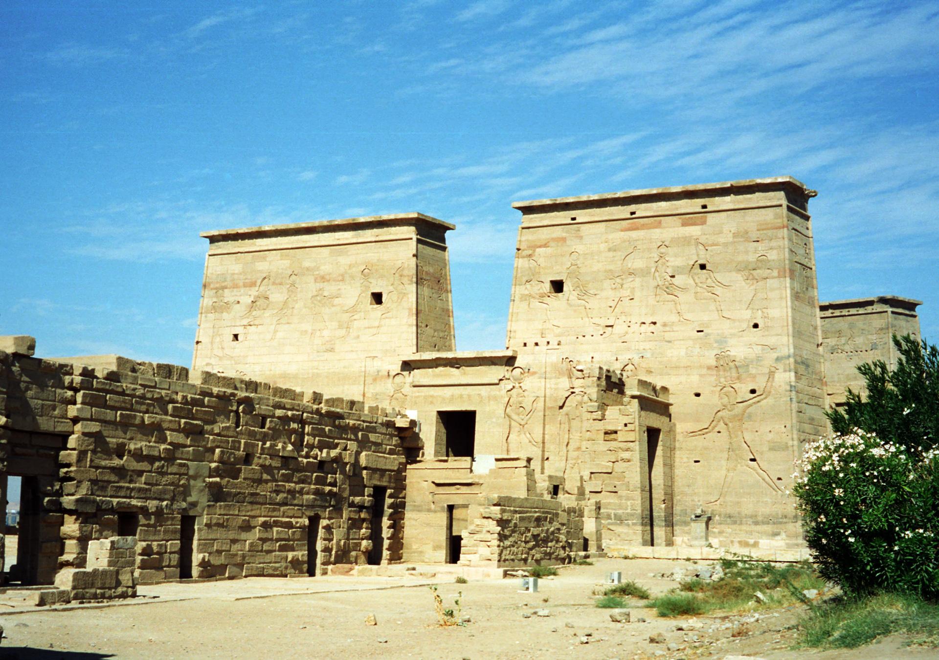 Temple of Isis in Philae